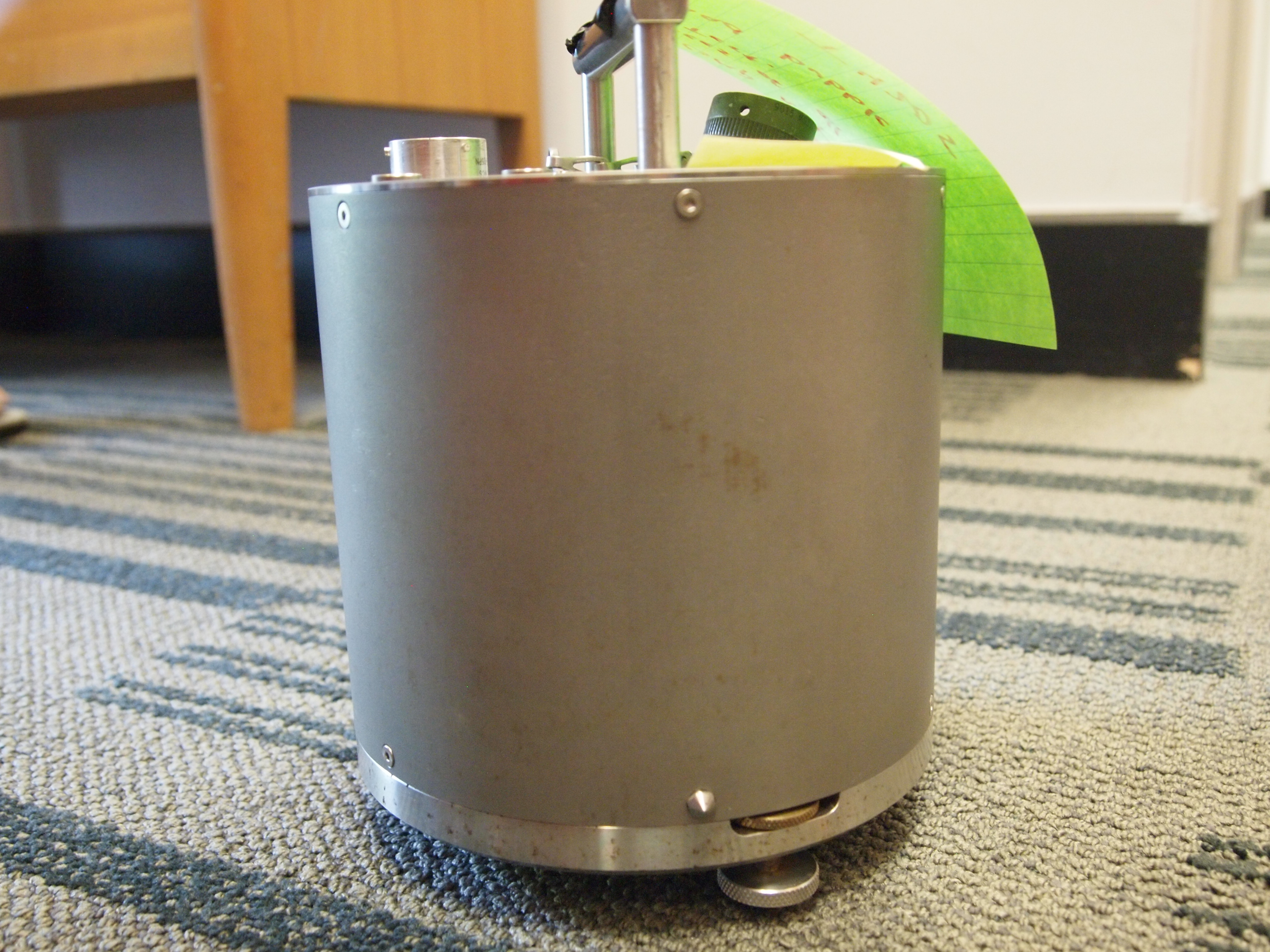 Triaxial Broadband Seismometer model CMG-40T by Güralp Systems Limited at Weston Observatory in Massachusetts, USA